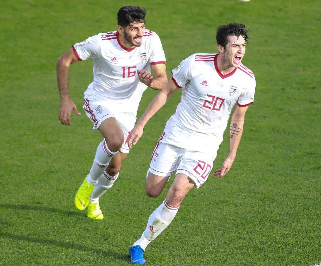 Iran & Vietnam Group D match, 2019 AFC Asian Cup